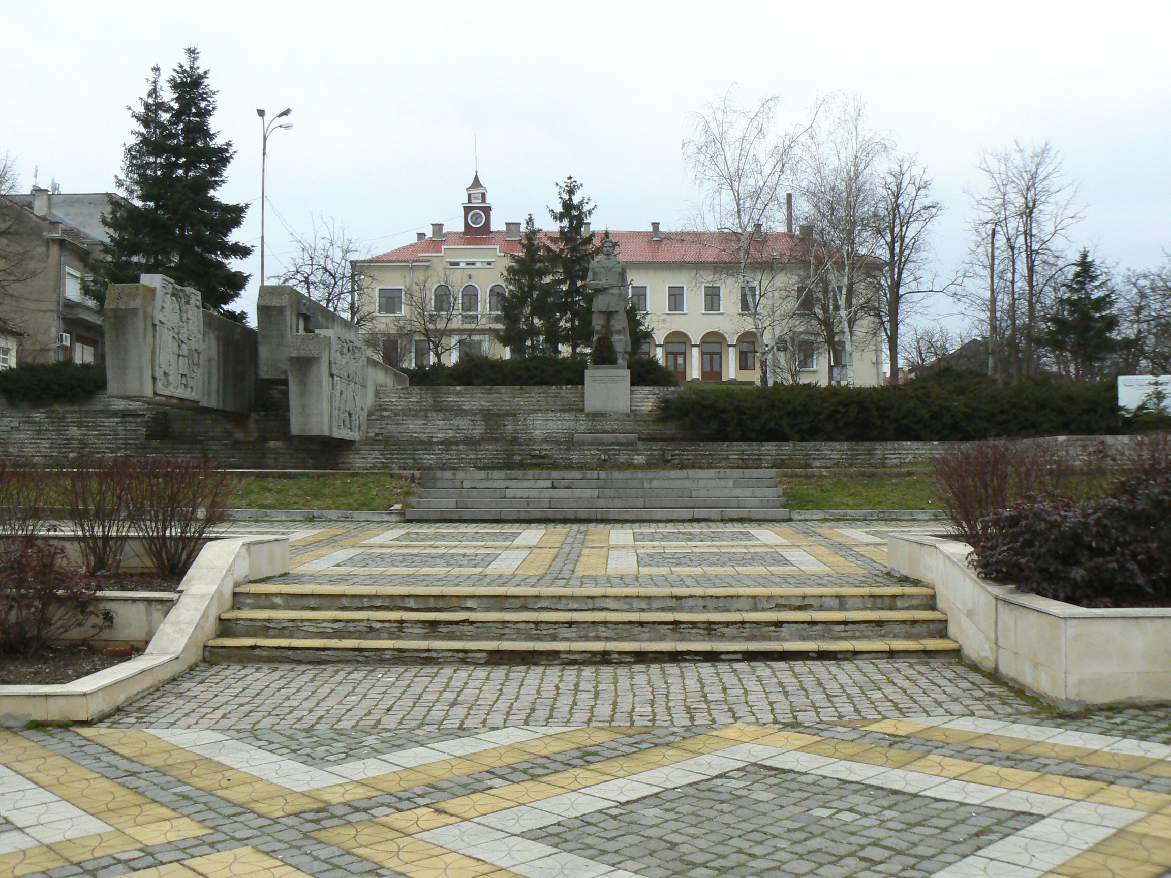 The centre of the town of Sredets, Burgas district, Bulgaria. The monument of Todor Grudov and the building of the town library